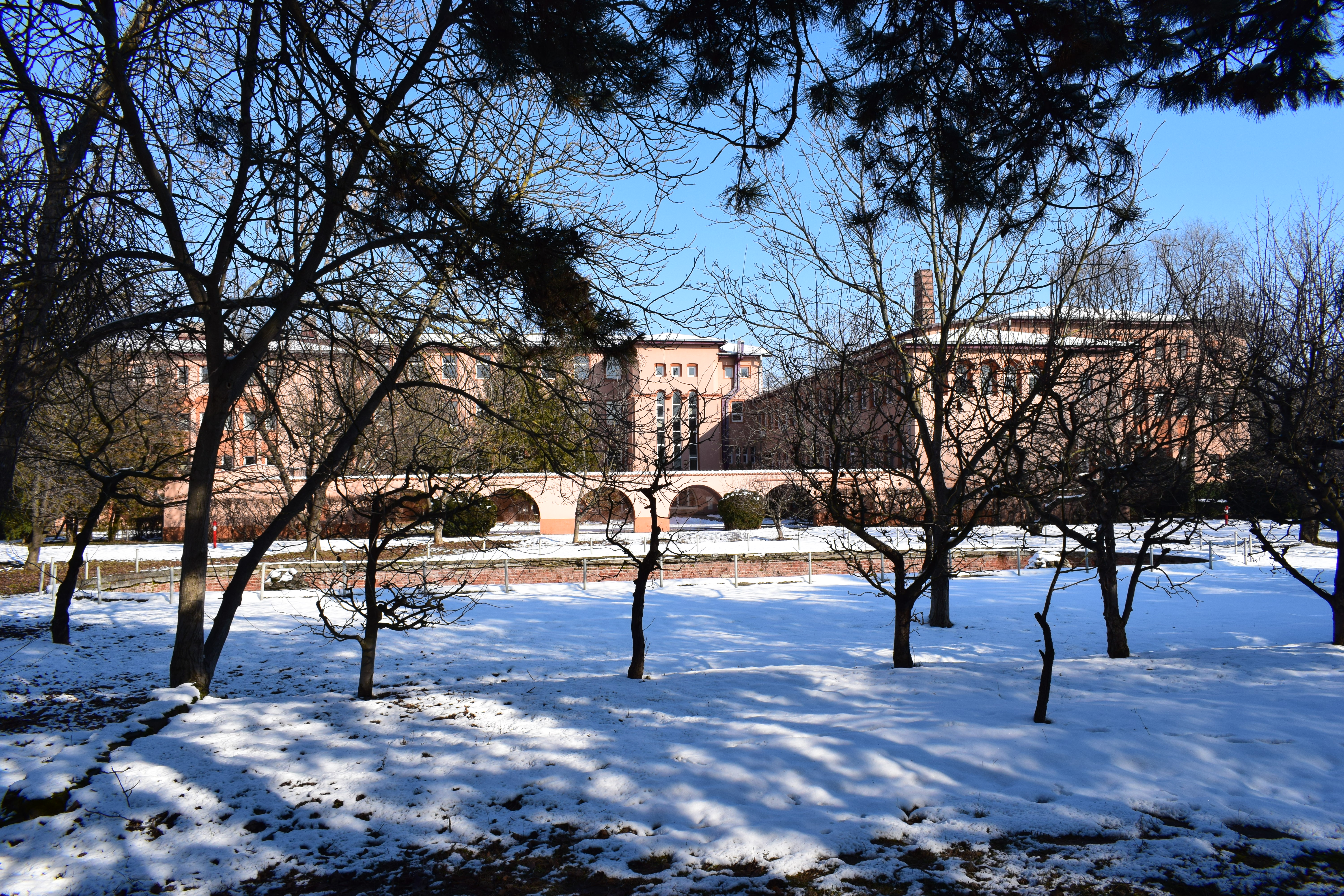 A general view of the main building of Băneasa Royal Farm